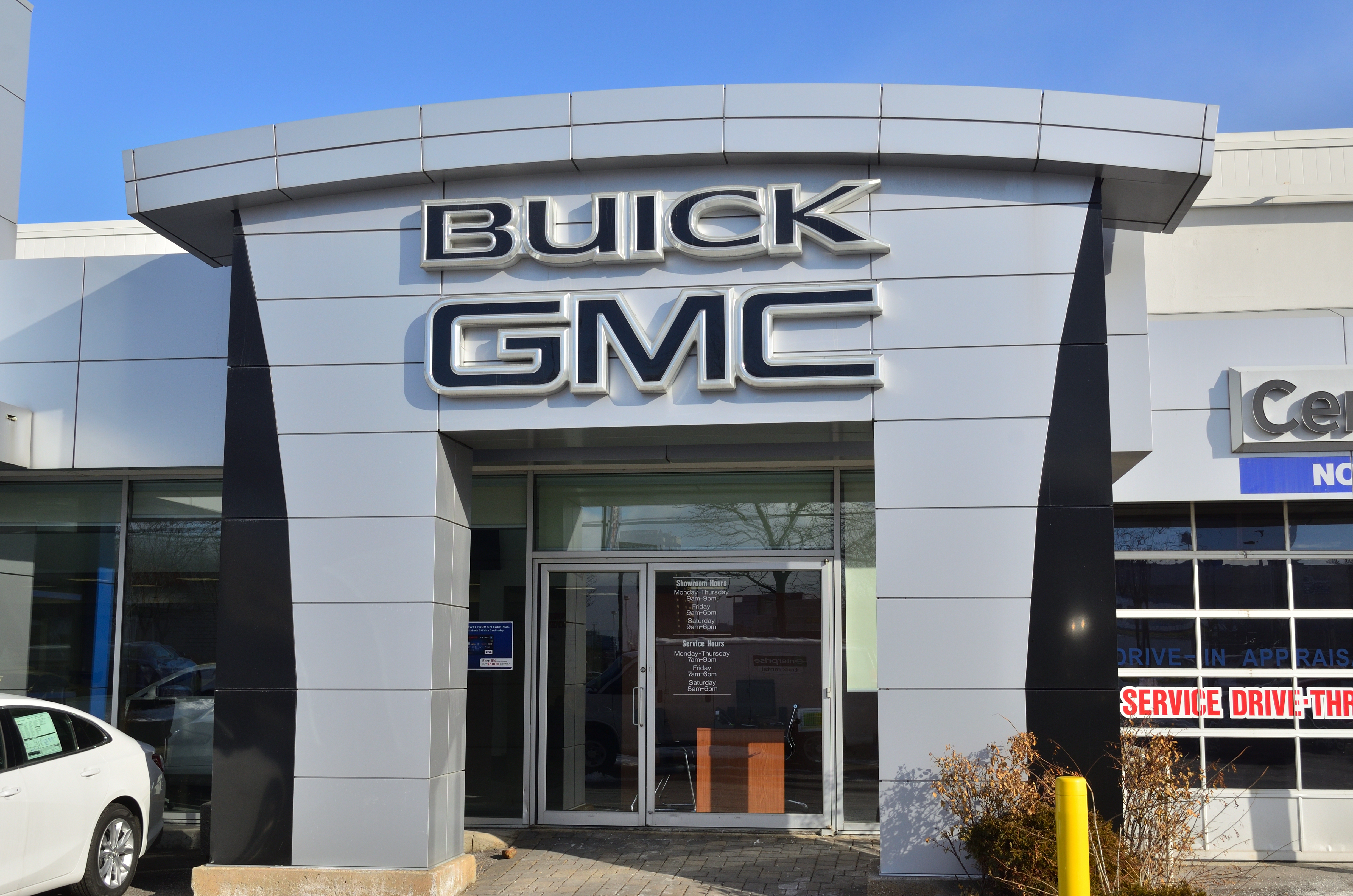 Buick GMC Markham - Address: 8435 Woodbine Ave, Markham, ON L3R 2P4